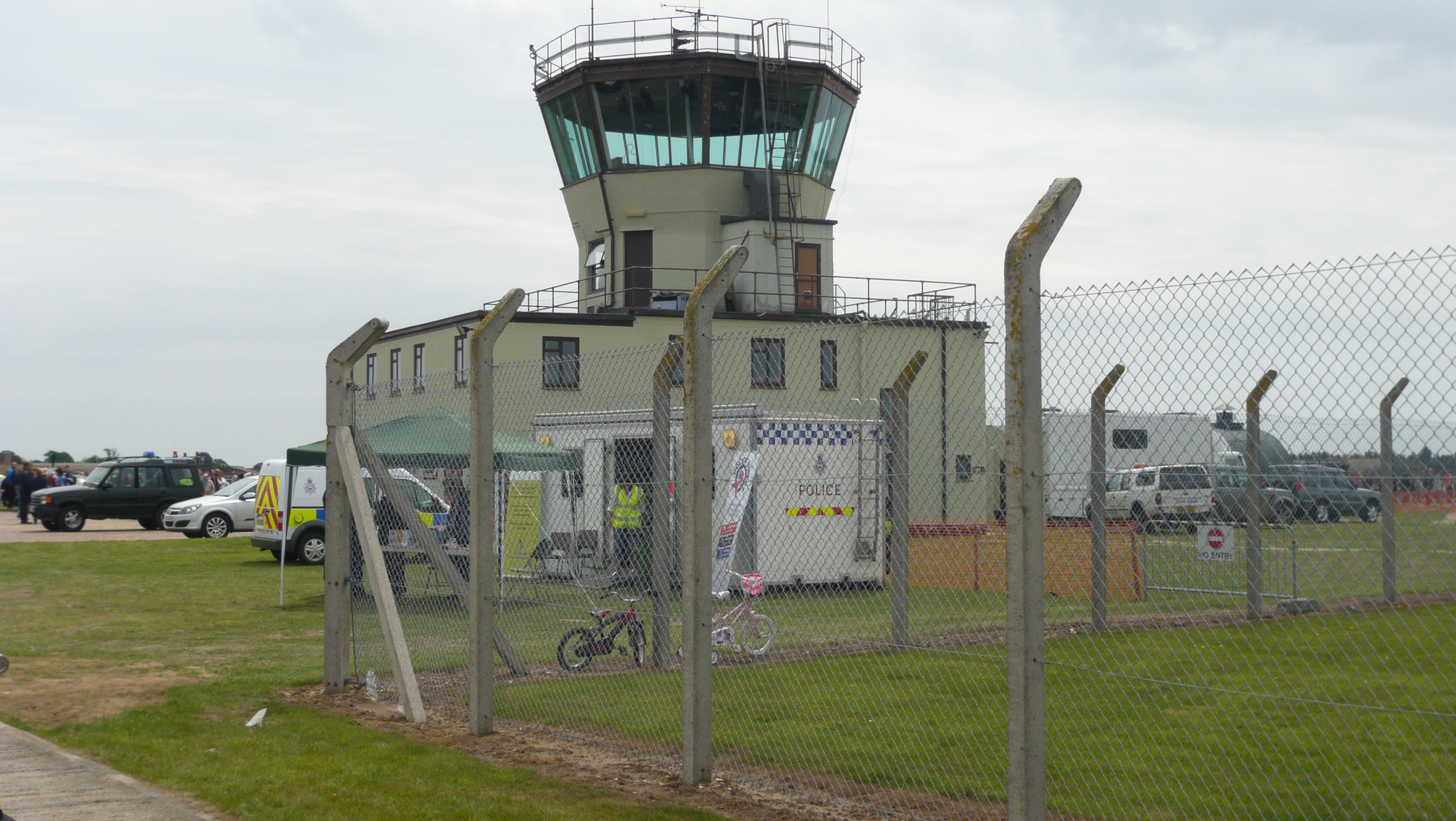 This the old ATC control tower at the former RAF Bentwaters airfield. Bentwaters is also known as the location for the alleged December 1980 UFO incident in Rendlesham Forest. The location is now a park.